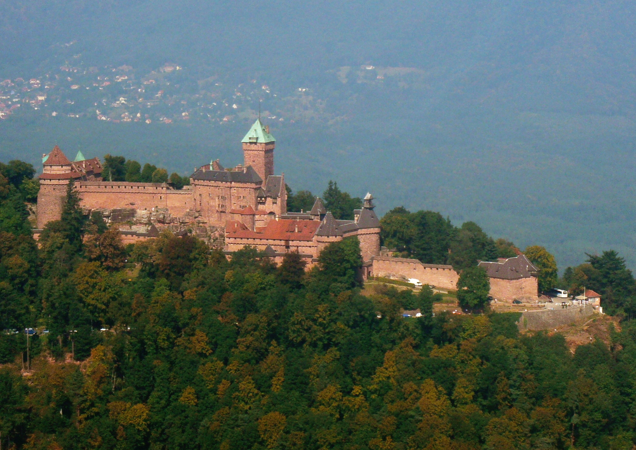 Aerial view of the Haut-Koenigsburg castle, Alsace, France; in the background, La Vancelle.